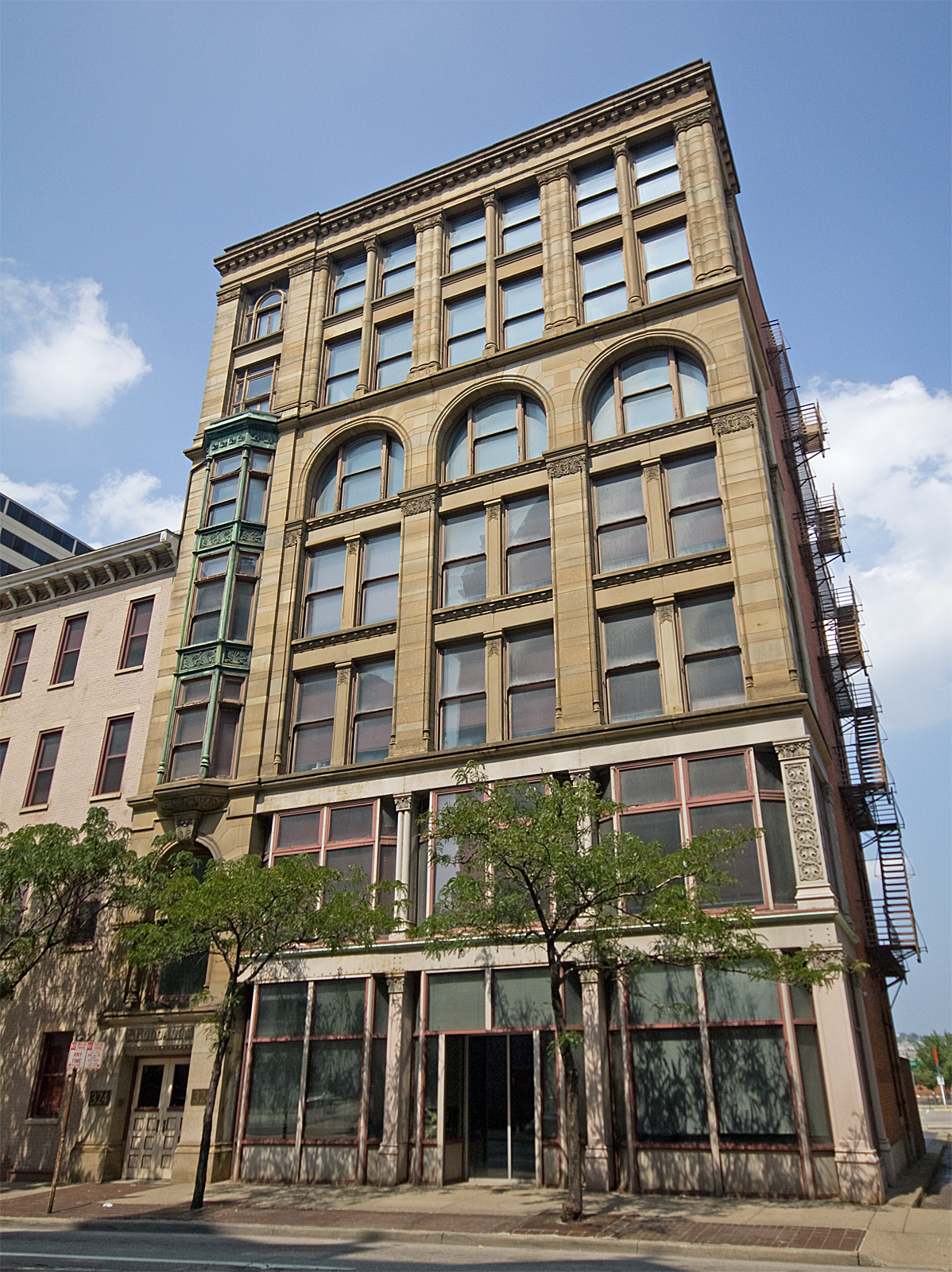 Goodall Building in Cincinnati, Ohio taken by Greg Hume.